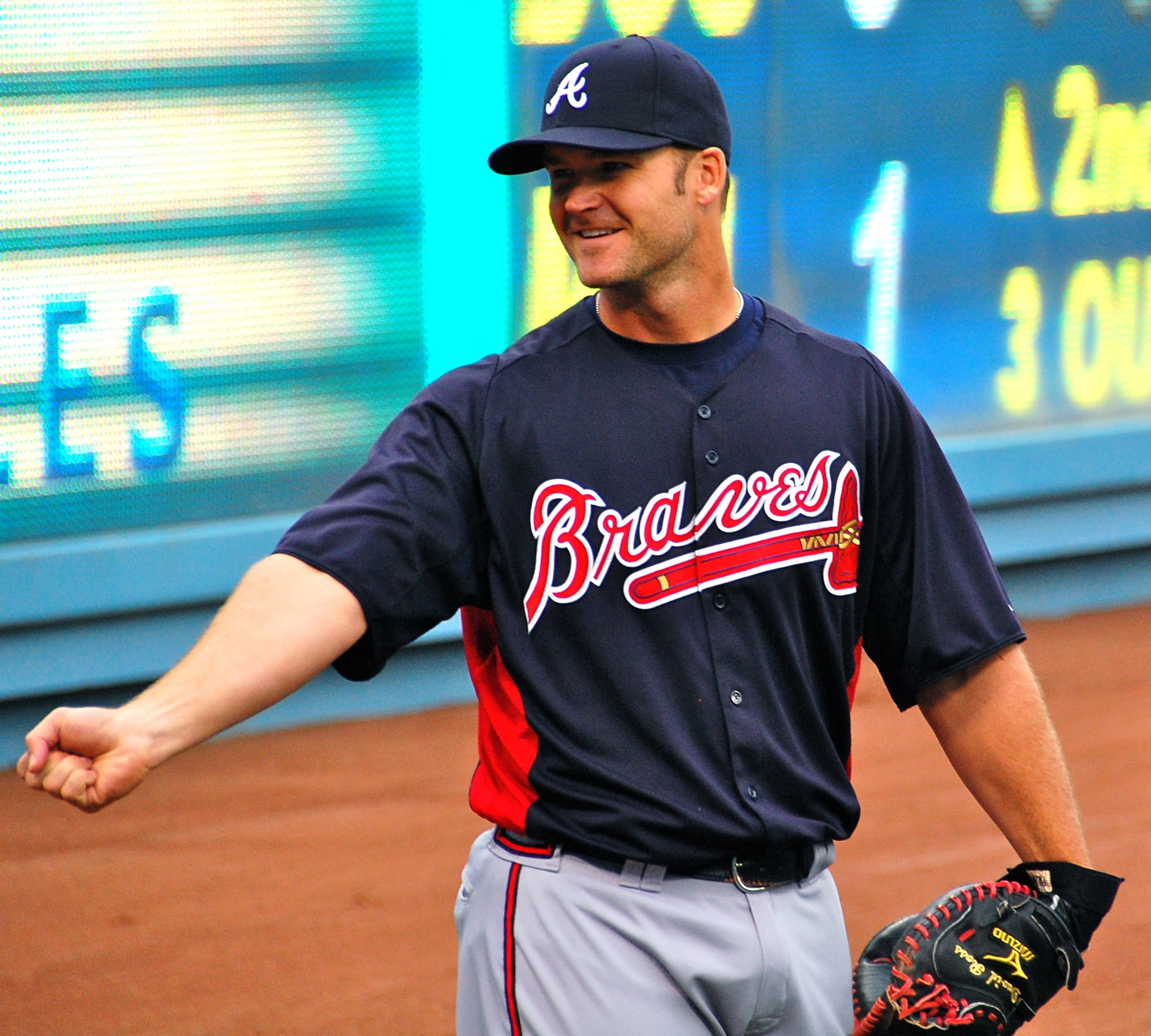 Atlanta Braves catcher David Ross at Dodger Stadium, 2012